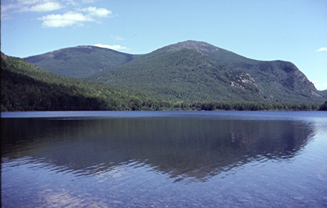 Traveler Mountain from South Branch Ponds Maine